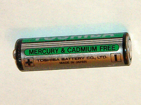 Battery